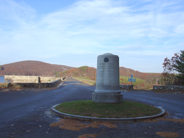 Winsor Dam